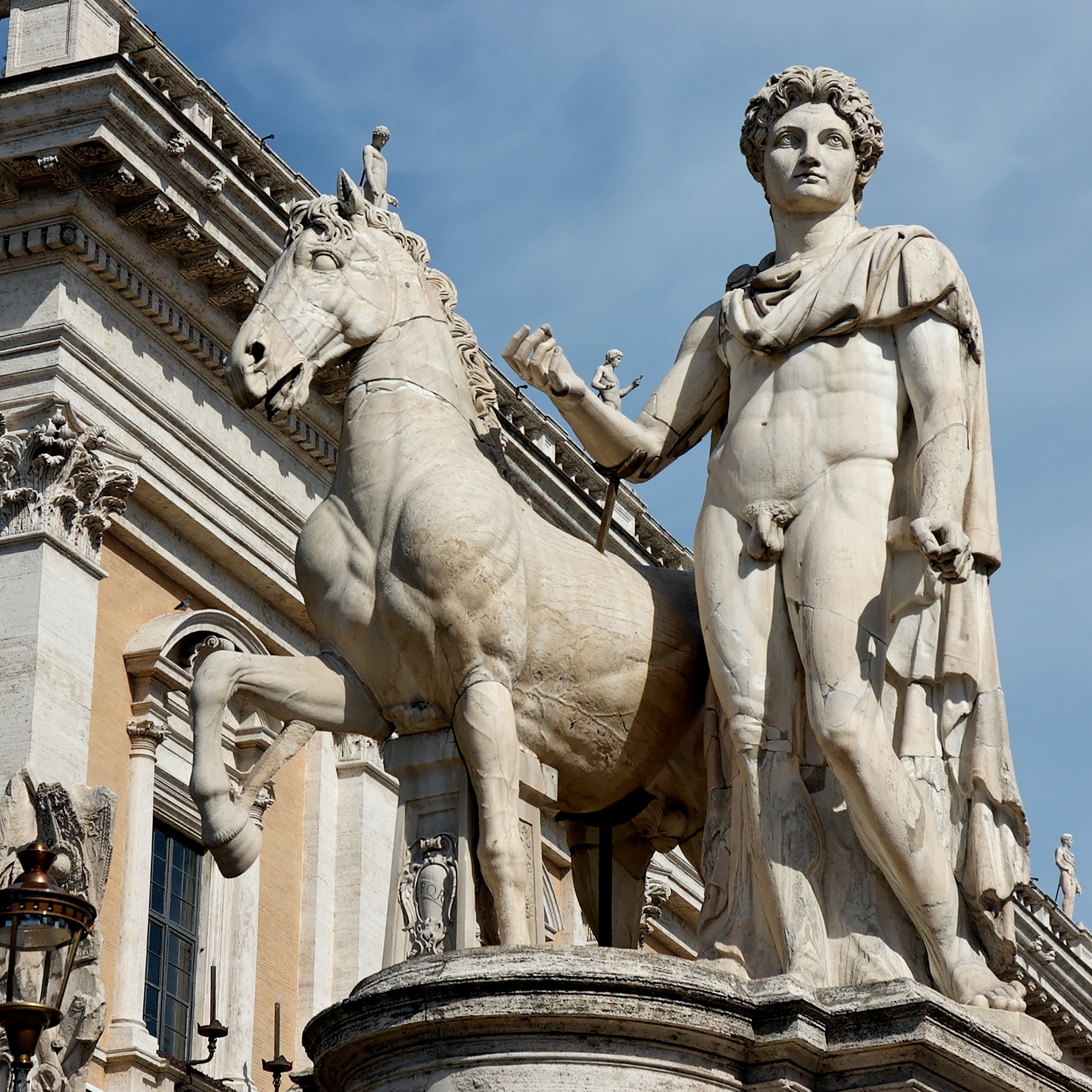 Colossal statue of a Dioscure, piazza del Campidoglio in Rome. Late Roman artwork, 4th century CE.